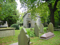 St Peter's parish churchyard, Prestbury, Cheshire, with the Norman chapel in the background